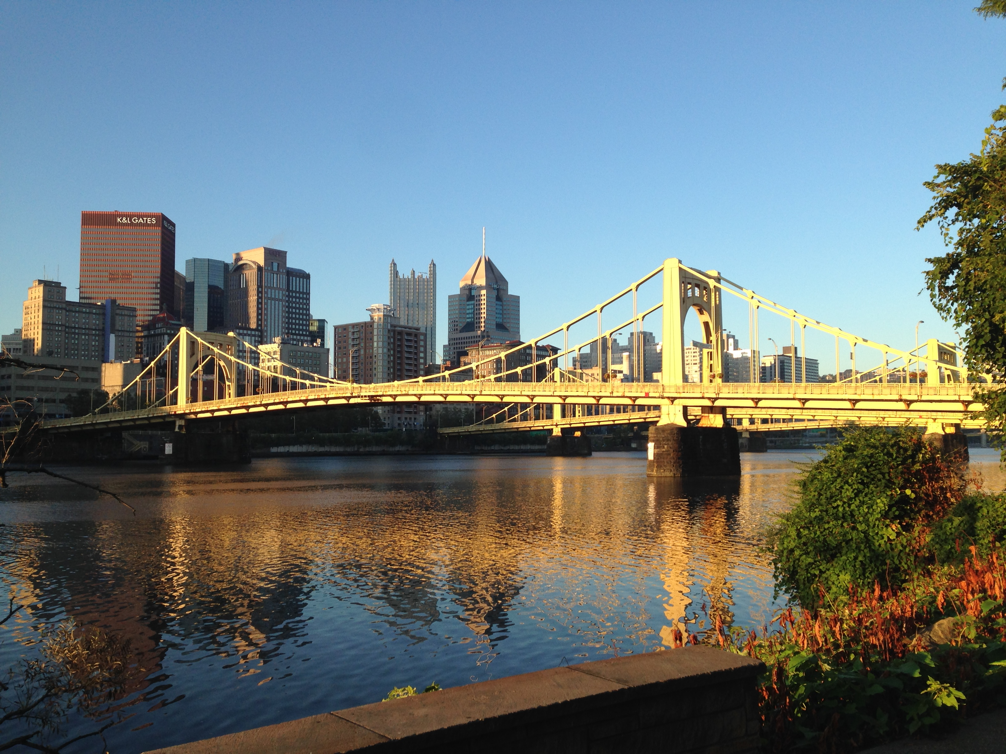 Ninth Street Bridge, Allegheny River at 9th Street Central Business District